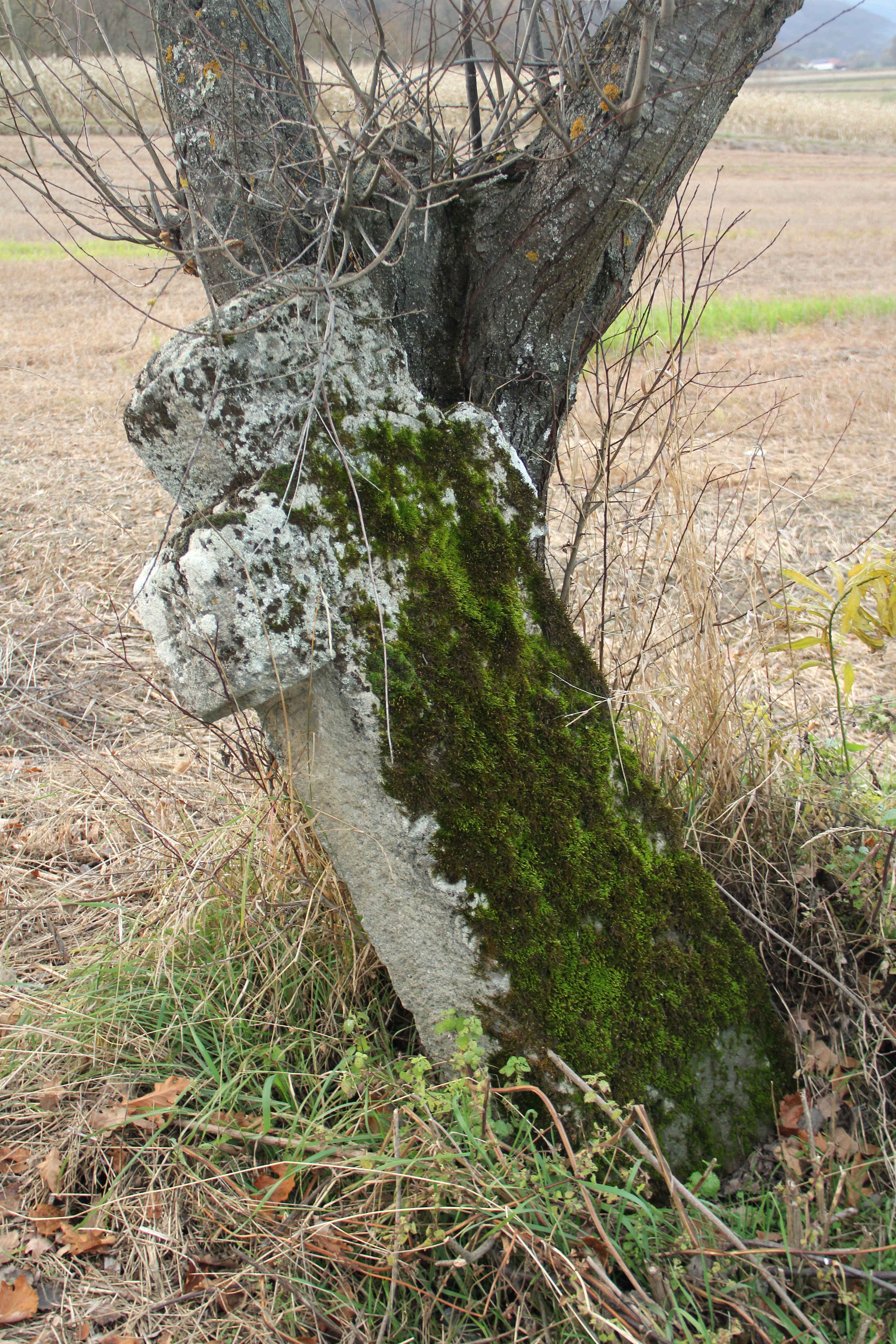 Old tombstone (1886) in the village of Bersici (the municipality of Gornji Milanovac), Serbia.